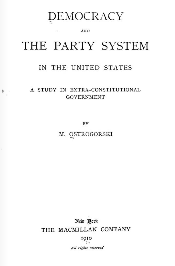 Democracy M.O